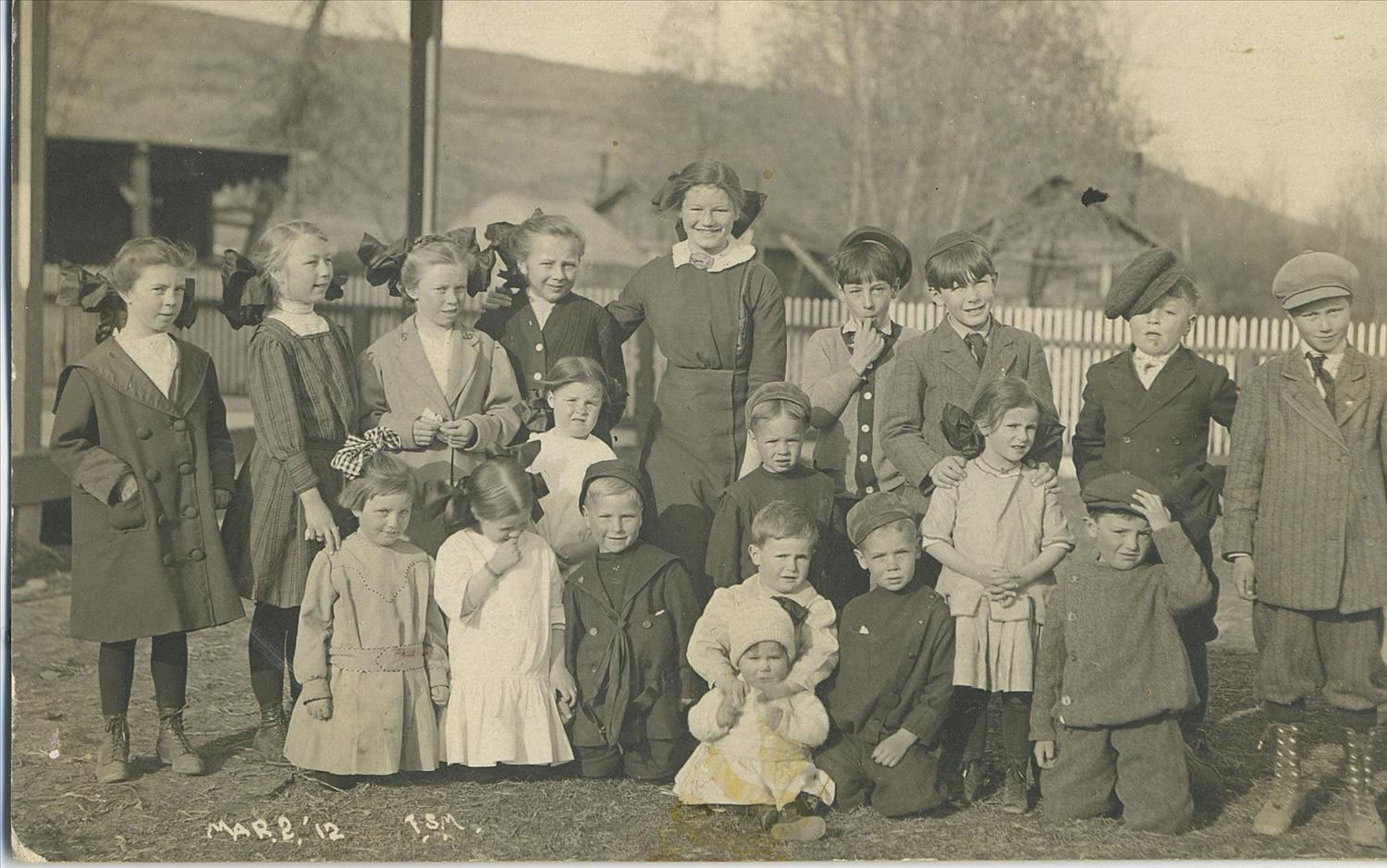 An example of Frank Matsura's pioneer photography. I wrote the basic article on Matsura, and wanted to show the quality of his work.